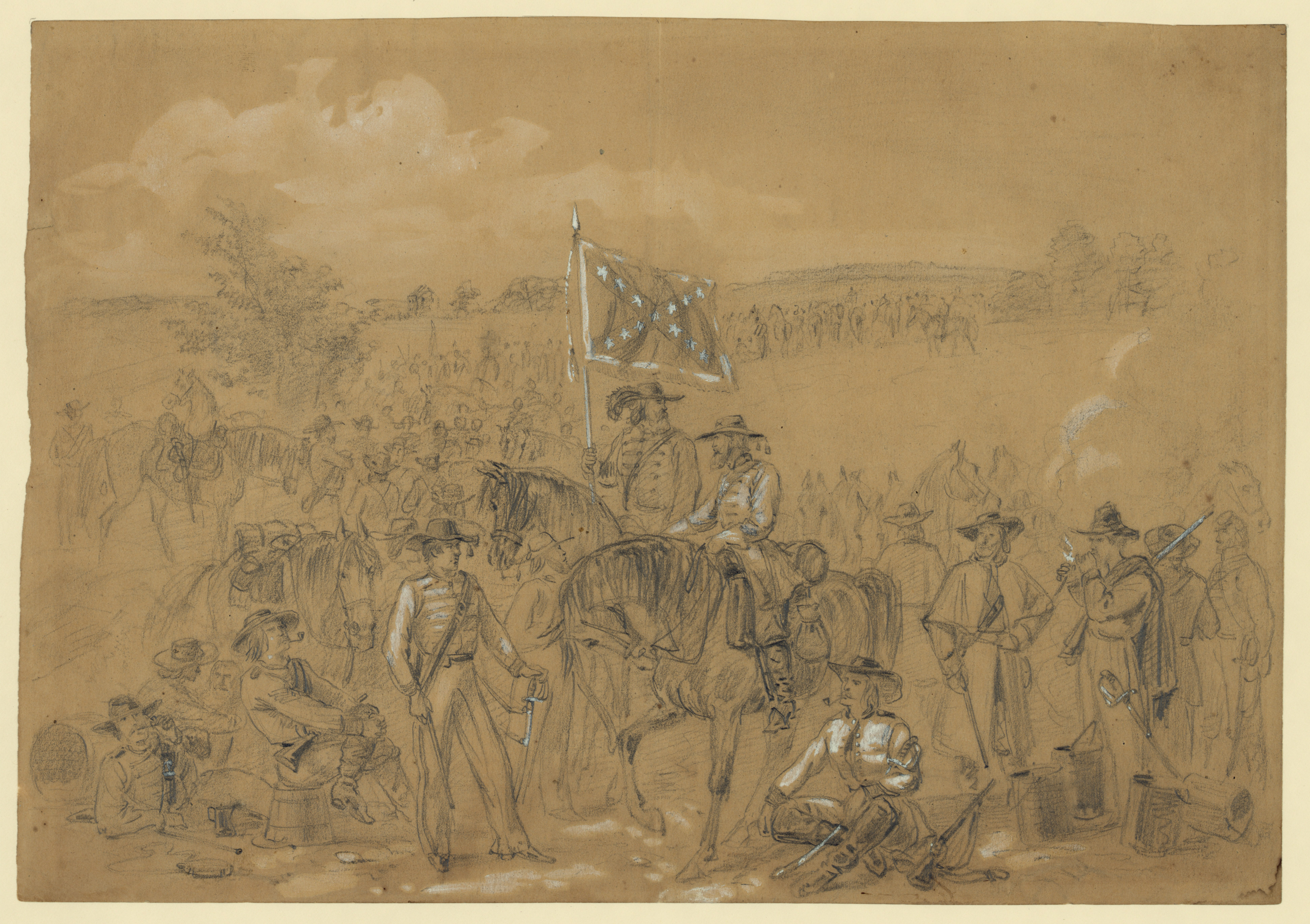 Title: The 1st Virginia Cavalry at a halt Abstract/medium: 1 drawing on tan paper : pencil and Chinese white ; 22.3 x 31.9 cm. (sheet).